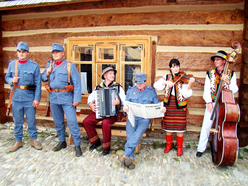 Galician market square in Skansen, Sanok